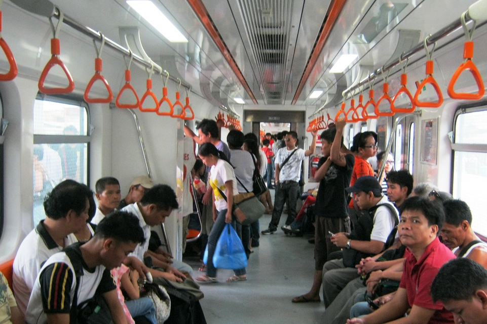 Inside a PNR Metro Commuter Hyundai Rotem Diesel Multiple Unit Train